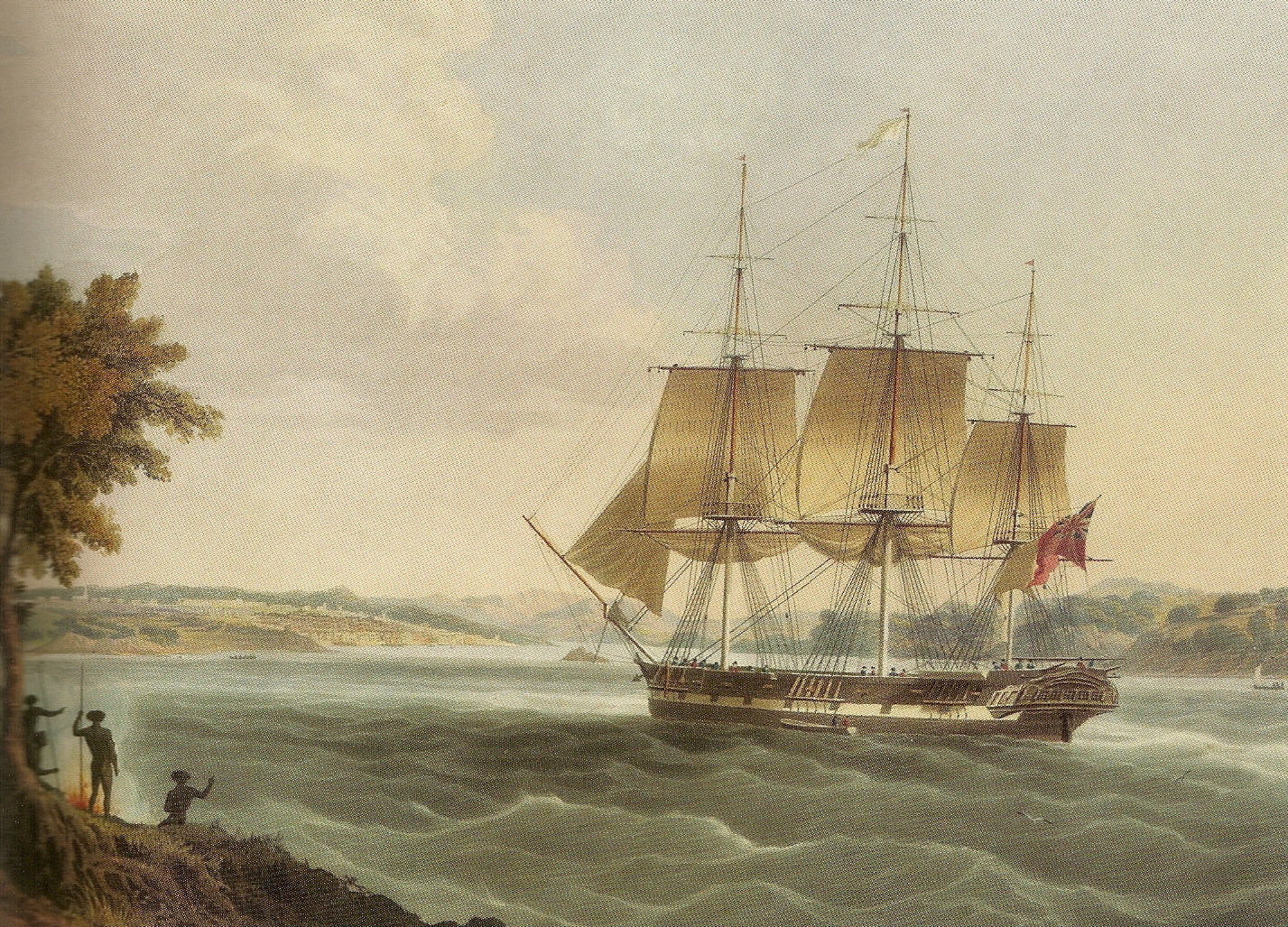 This 1830 painting shows the Mellish entering Sydney Harbour, New South Wales. The Mellish was one of the many ships which imported resources from India to help establish the fledgling colony.